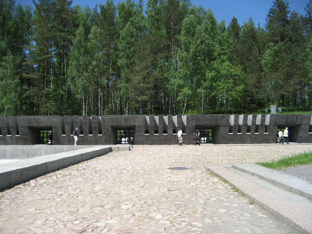 Wall with niches to represent the victims of concentration camps at the Khatyn Memorial